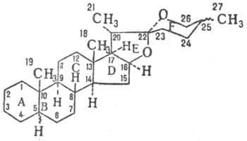 Spyrostan